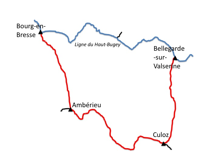 Ligne du haut bugey